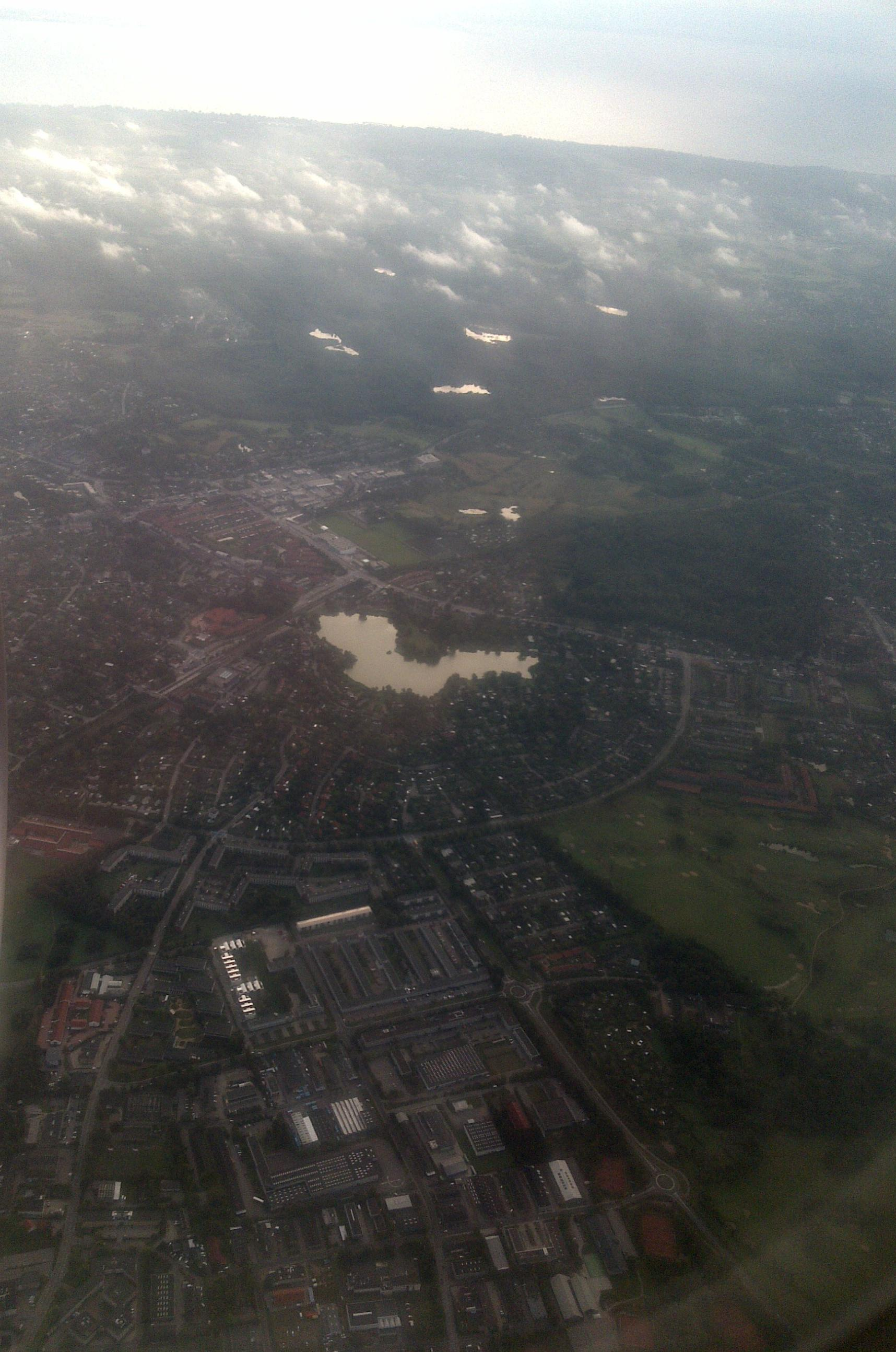 Birkeröd, a city and former municaplity, northeastern Sealand (Själland), Denmark. Seen from the west towards the east. In the background: Öresund.